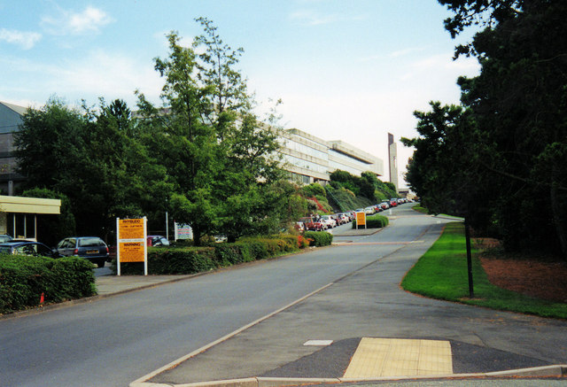 The main entrance to Aberystwyth University